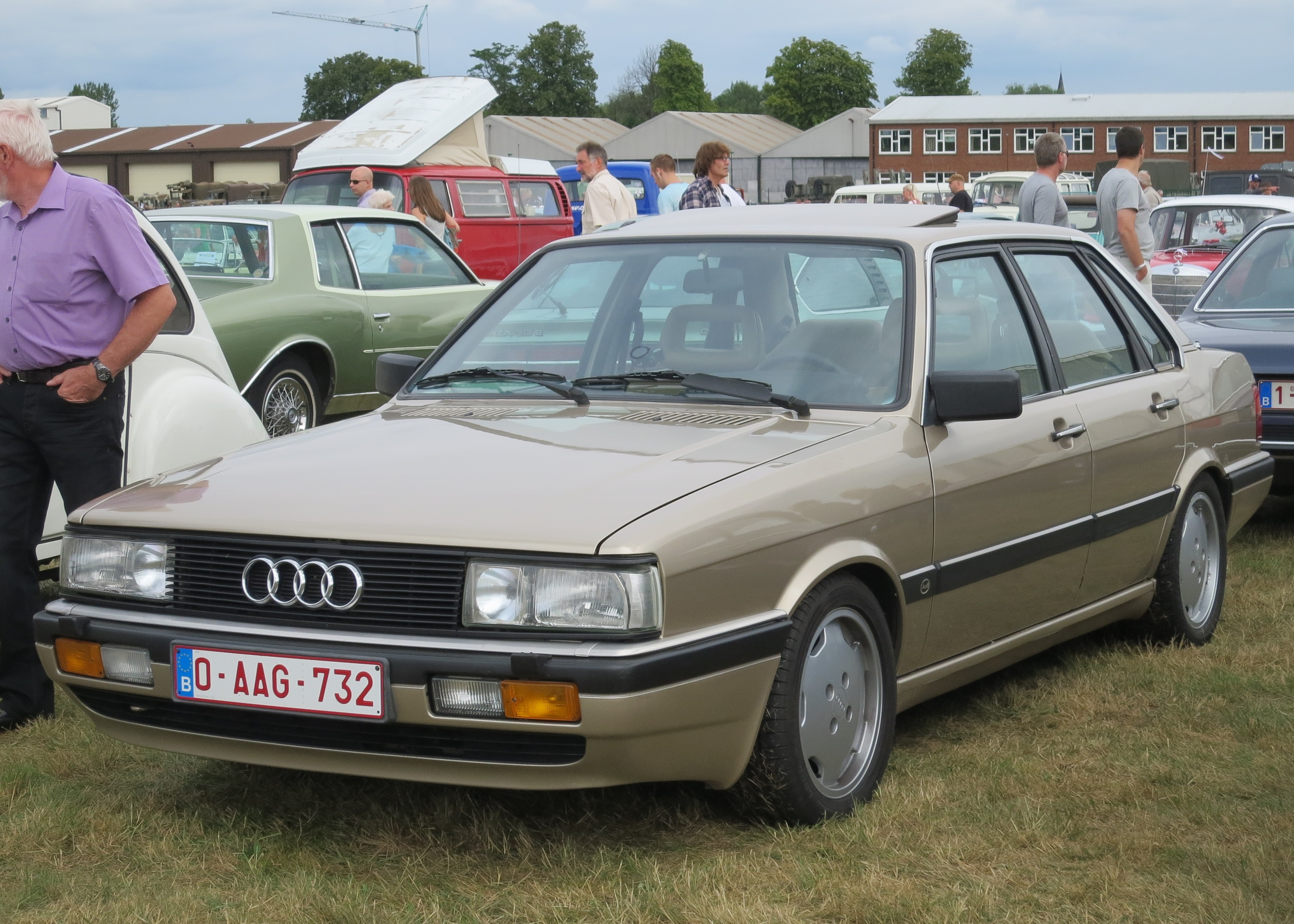 Audi 90 in Belgium